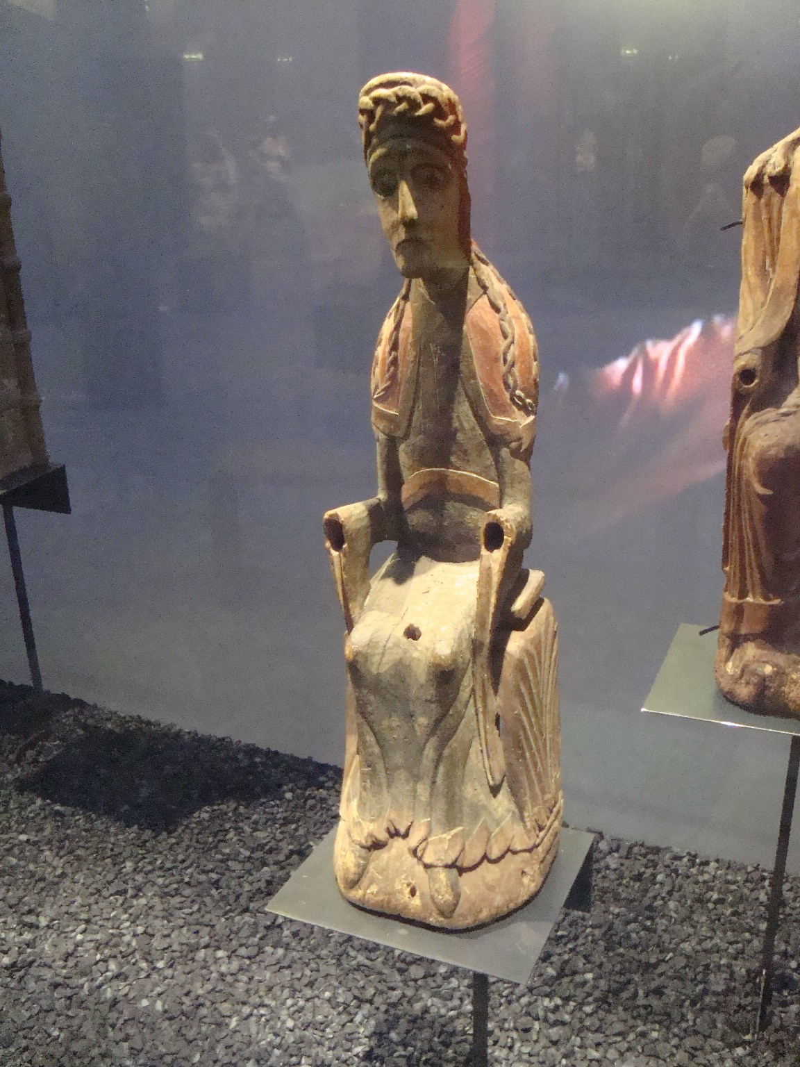 The Statue of Mary from Mosjö, Närke. Sweden's earliest version of the Queen of Heaven is enigmatically wall-eyed and has a tightly closed mouth with droops downwards in a bitter curve. These features, which seem strange to us, are precisely those which indicate a legacy from early Christian art in Classical Rome. Unfortunately the Mosjö Madonna now lacks her hands and the Chist child which once sat on her lap. We can be sure, though, that the face of the child closely resembled that of his mother and had the same severe, imperious penetrating look.